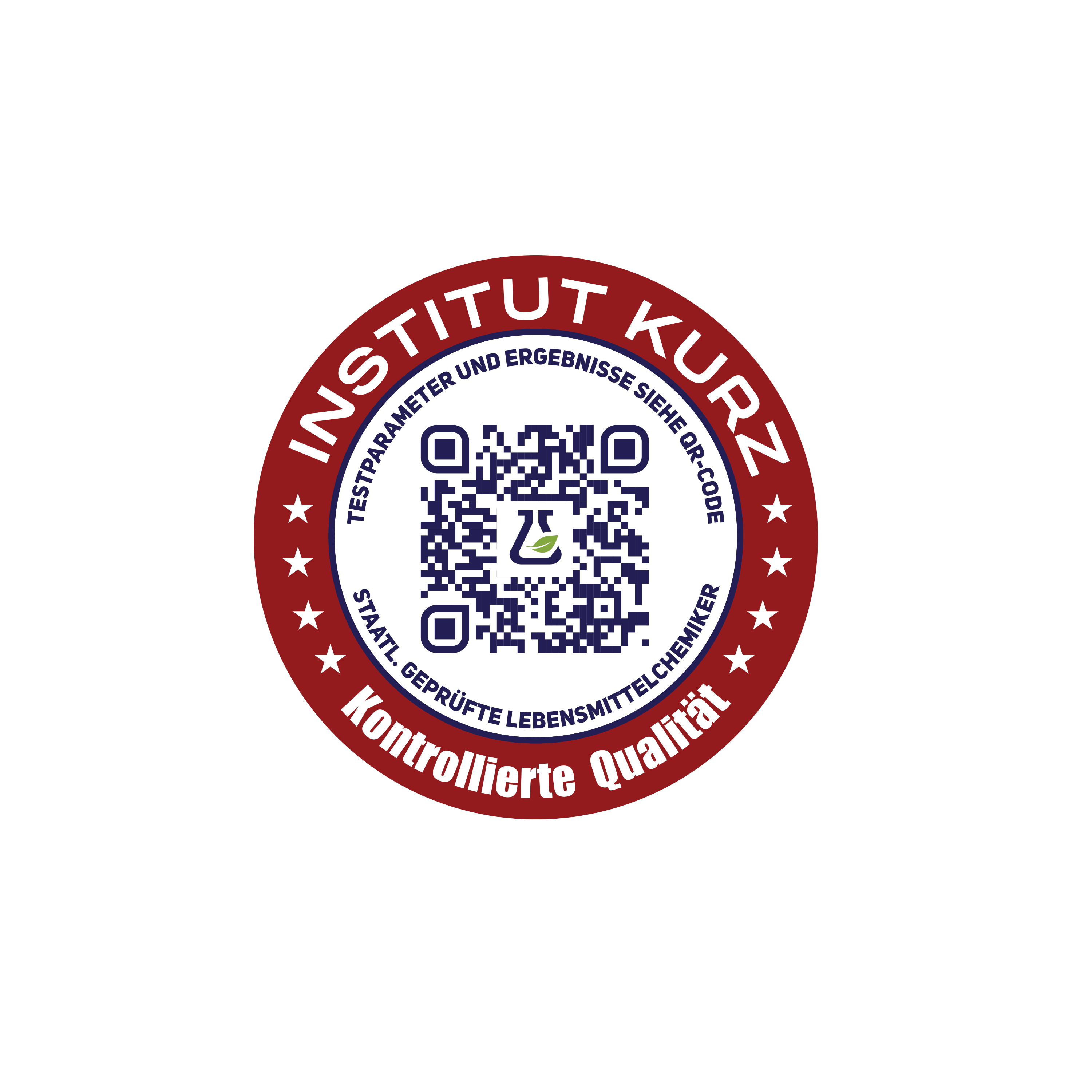 Logo of Intitut Kurz